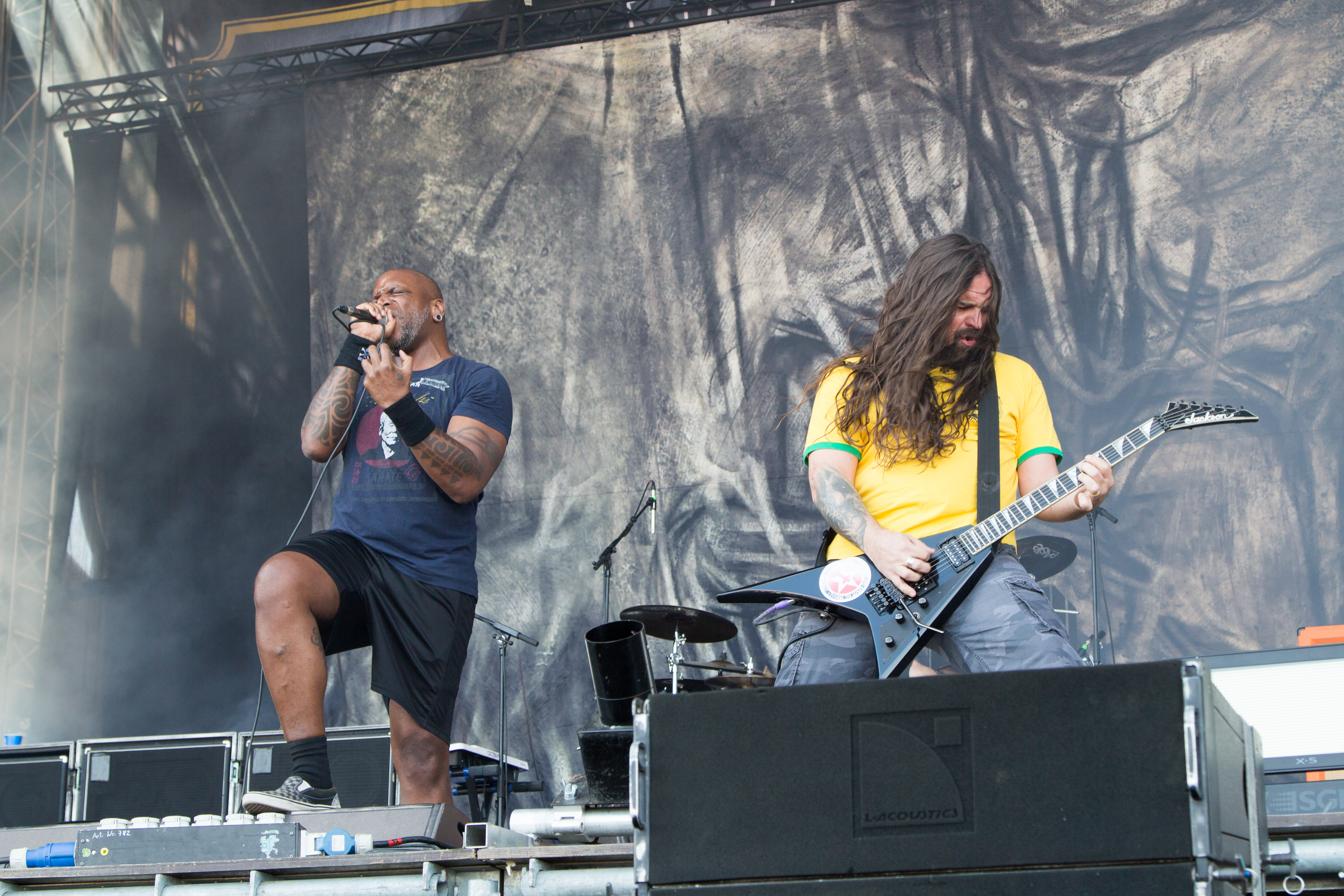 Derrick Leon Green and Andreas Kisser from Sepultura at Nova Rock 2014